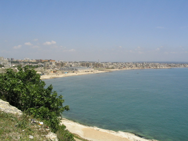 Lattakia beach. View of the beach from Al Siwar Restaurant, Latakia.